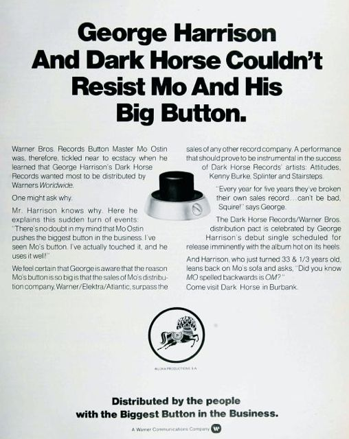 Announcement of Warner Bros. distribution deal for Dark Horse Records